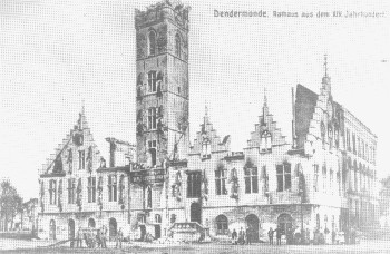 Dendermonde town hall shortly after the First World War